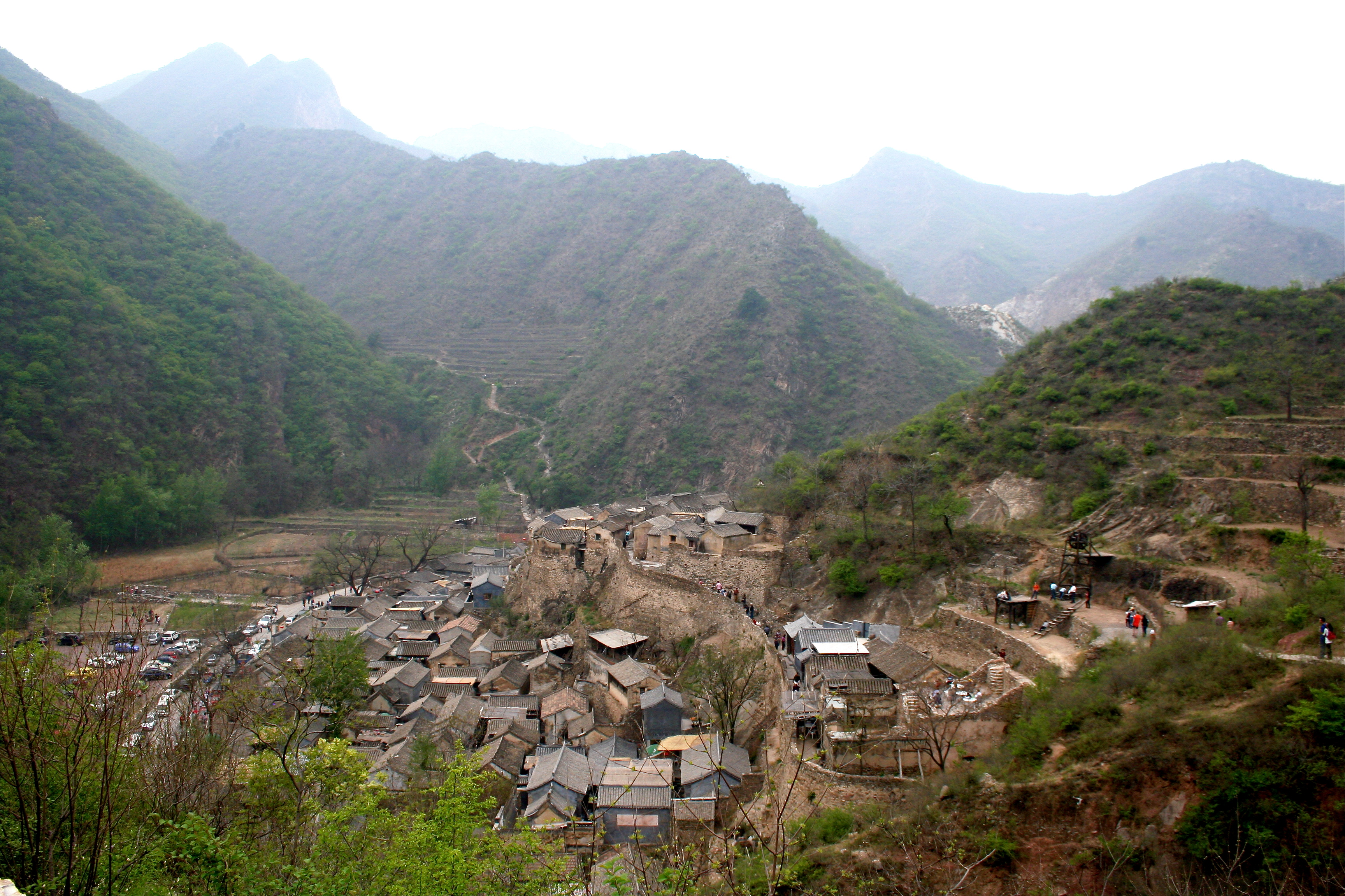 Cuandixia, a Village founded in Ming Dynasty in the west of Beijing, China